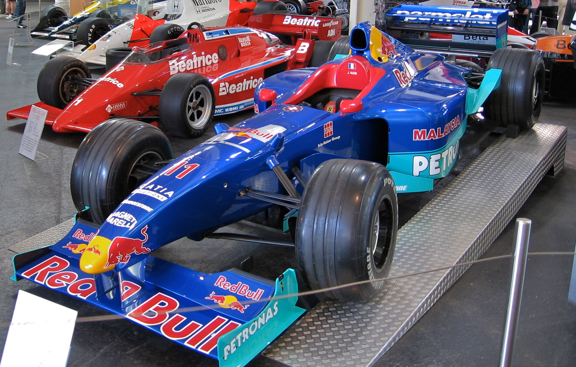 Sauber C18 (1999 livery)